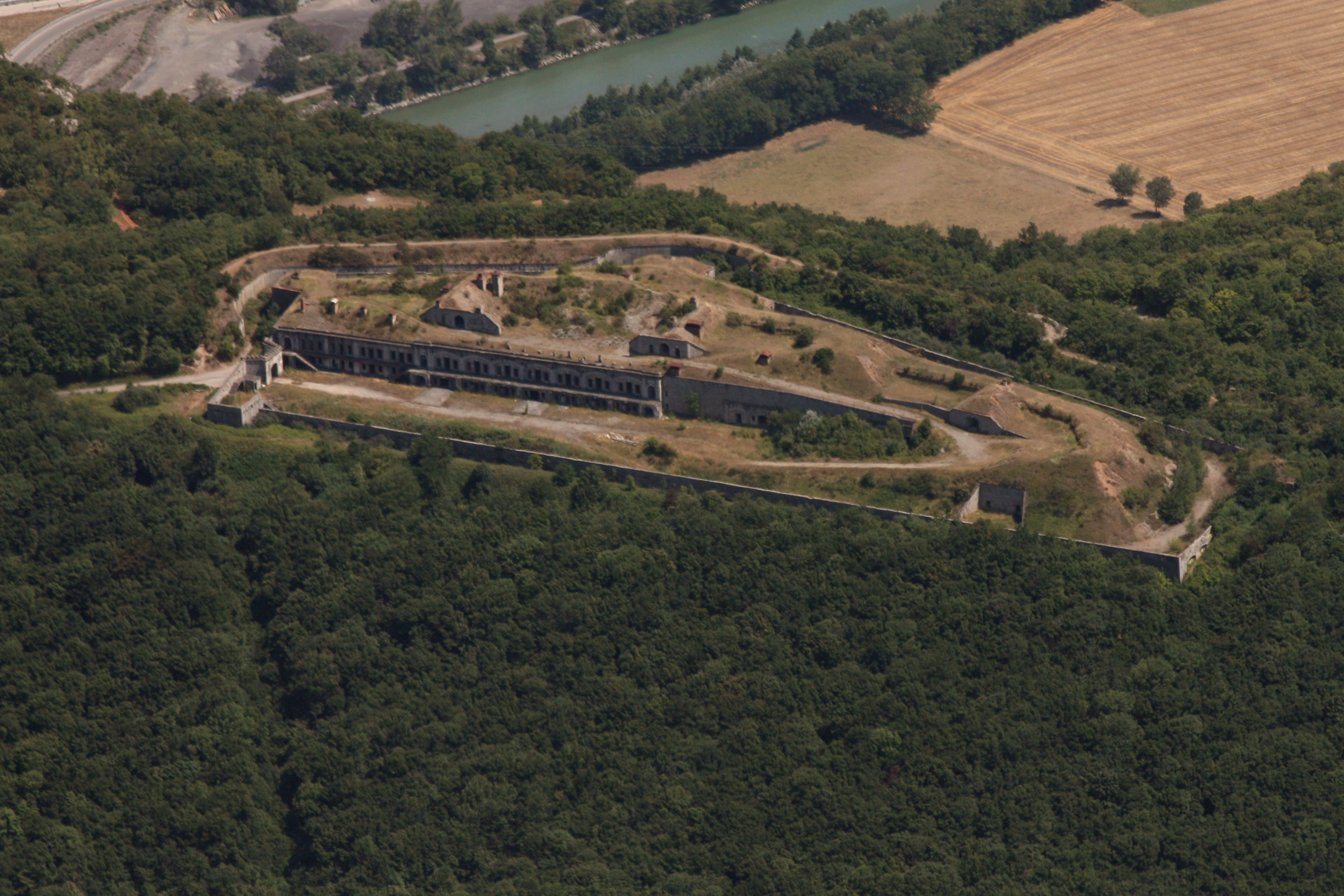 The Fort de Comboire, seen from the top of the Moucherotte mountain (Vercors massif, France).